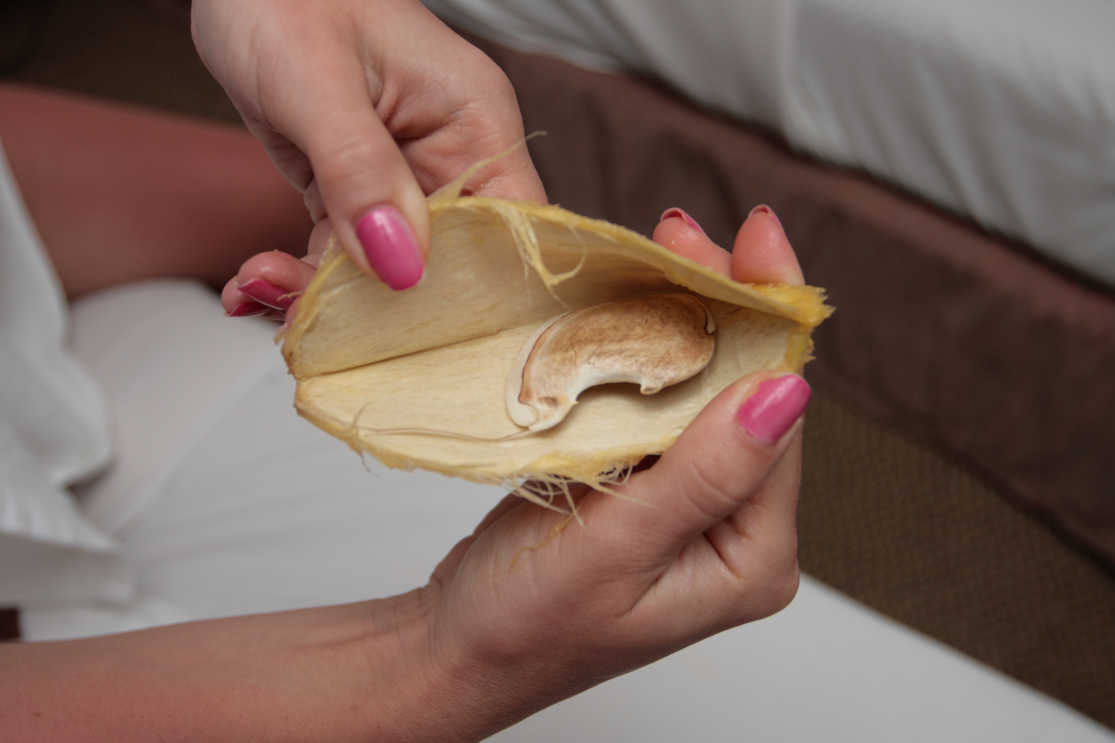 Opened seed of yellow mango.